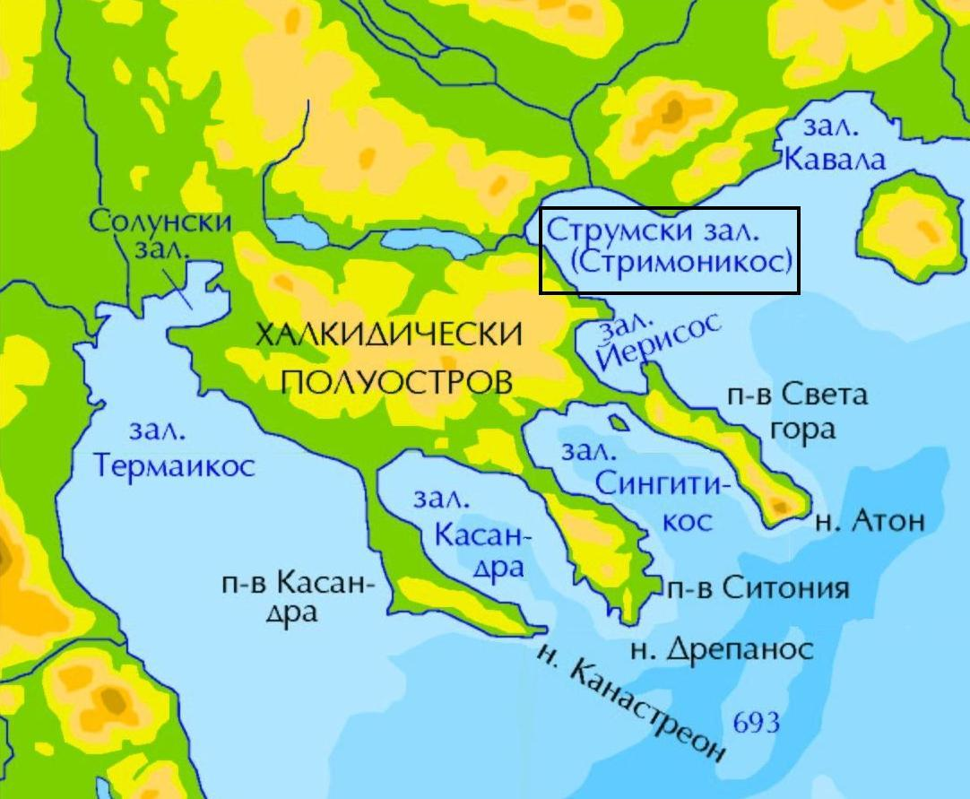 Map of the Bay of Strimon / Aegean Sea (in Bulgarian)